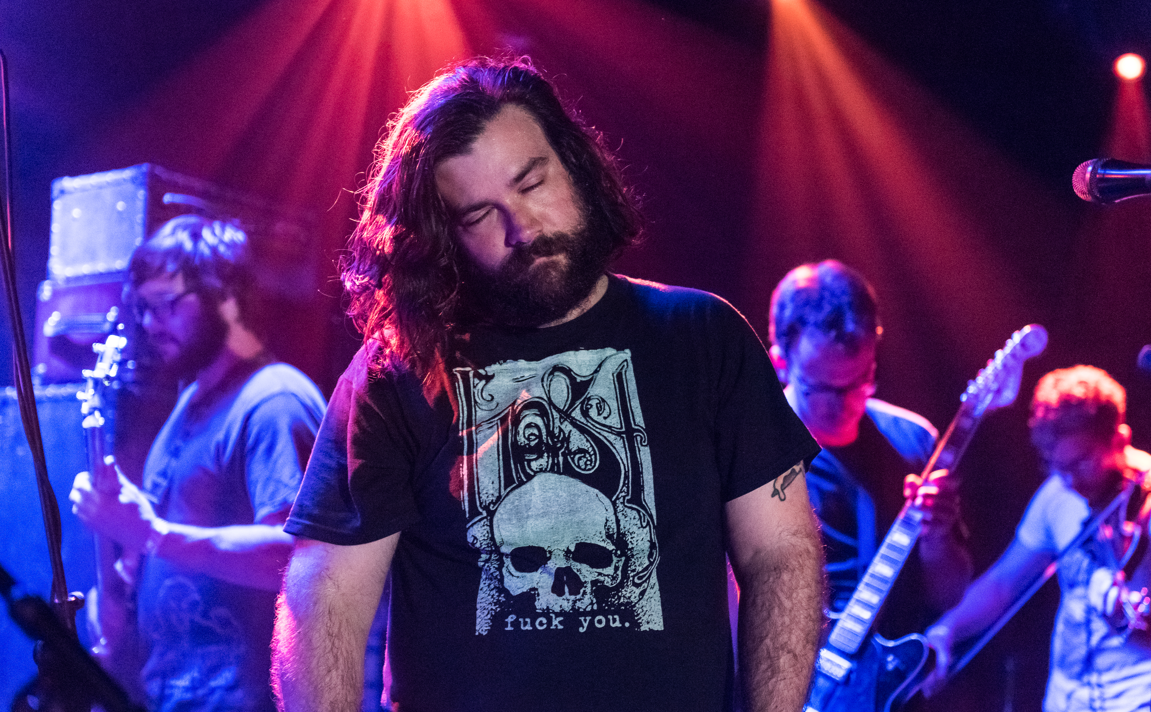 August 22, 2015 Greenwich Village New York, NY